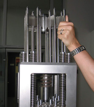 PWR control rod assemby, Foto: Nic Ransby, July 2006